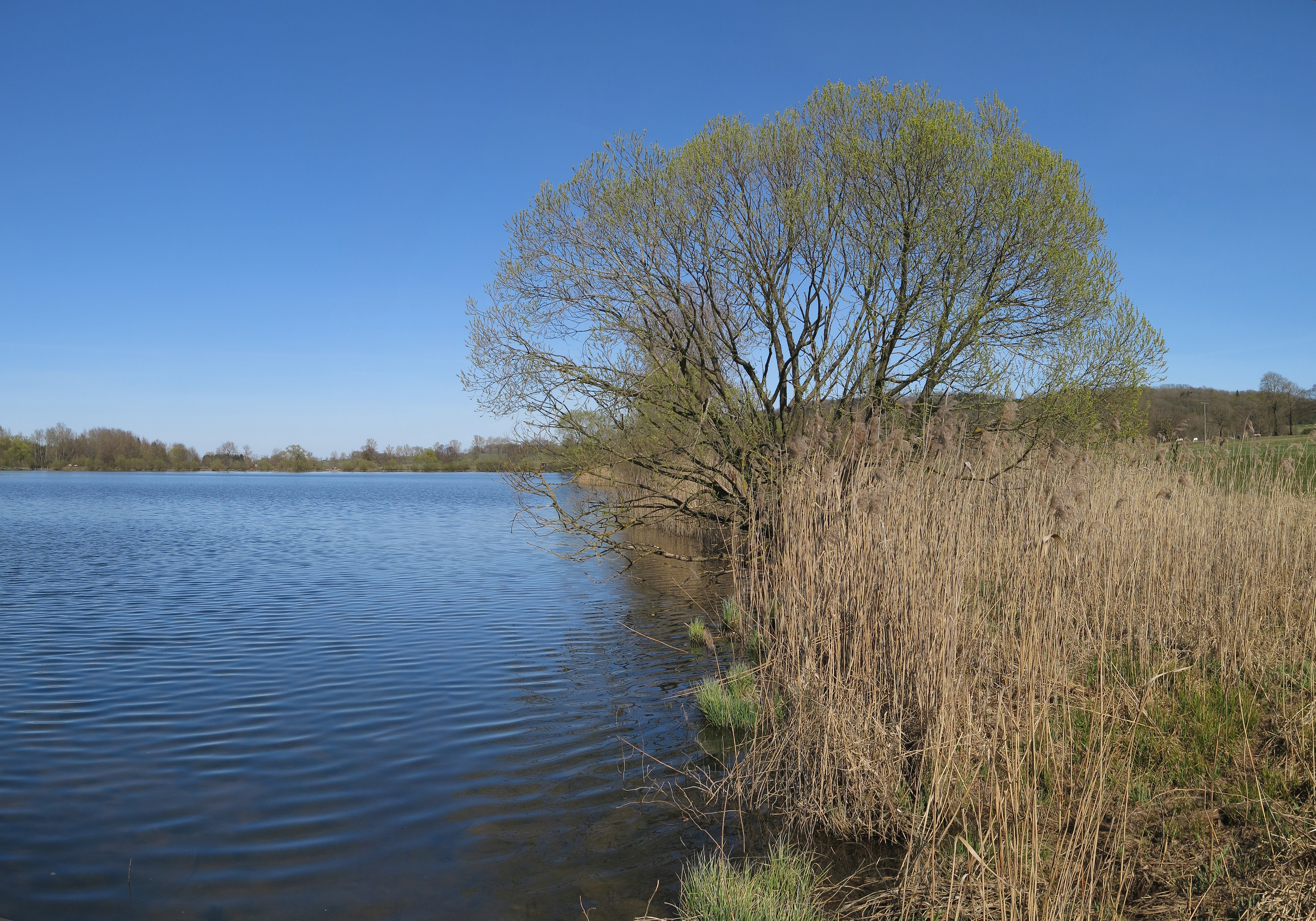 Shoreline of the pond near Nieder-Moos in the High Vogelsberg Nature Park